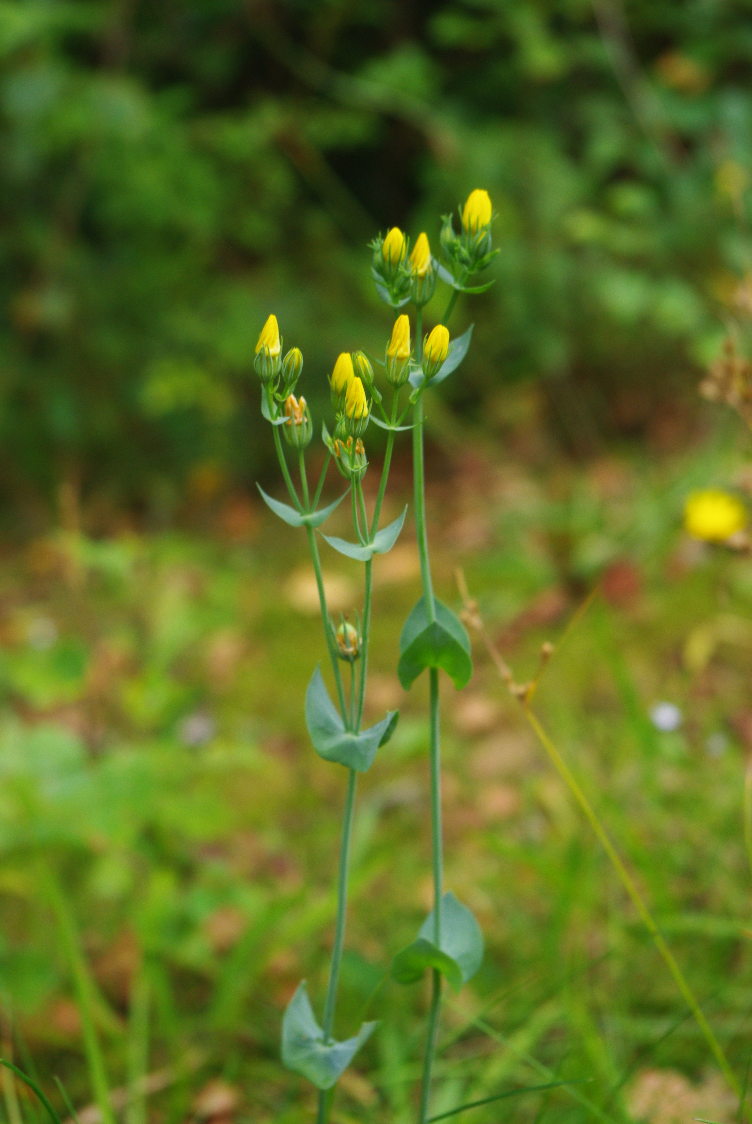 Blackstonia perfoliata subsp. perfoliata in Lauwersoog area